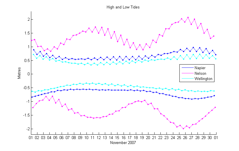 High and low tides in New Zealand at Nelson in the South Island with two spring tides per month compared to Wellington and Napier in the North Island with one only. Values are differences from the average water level.